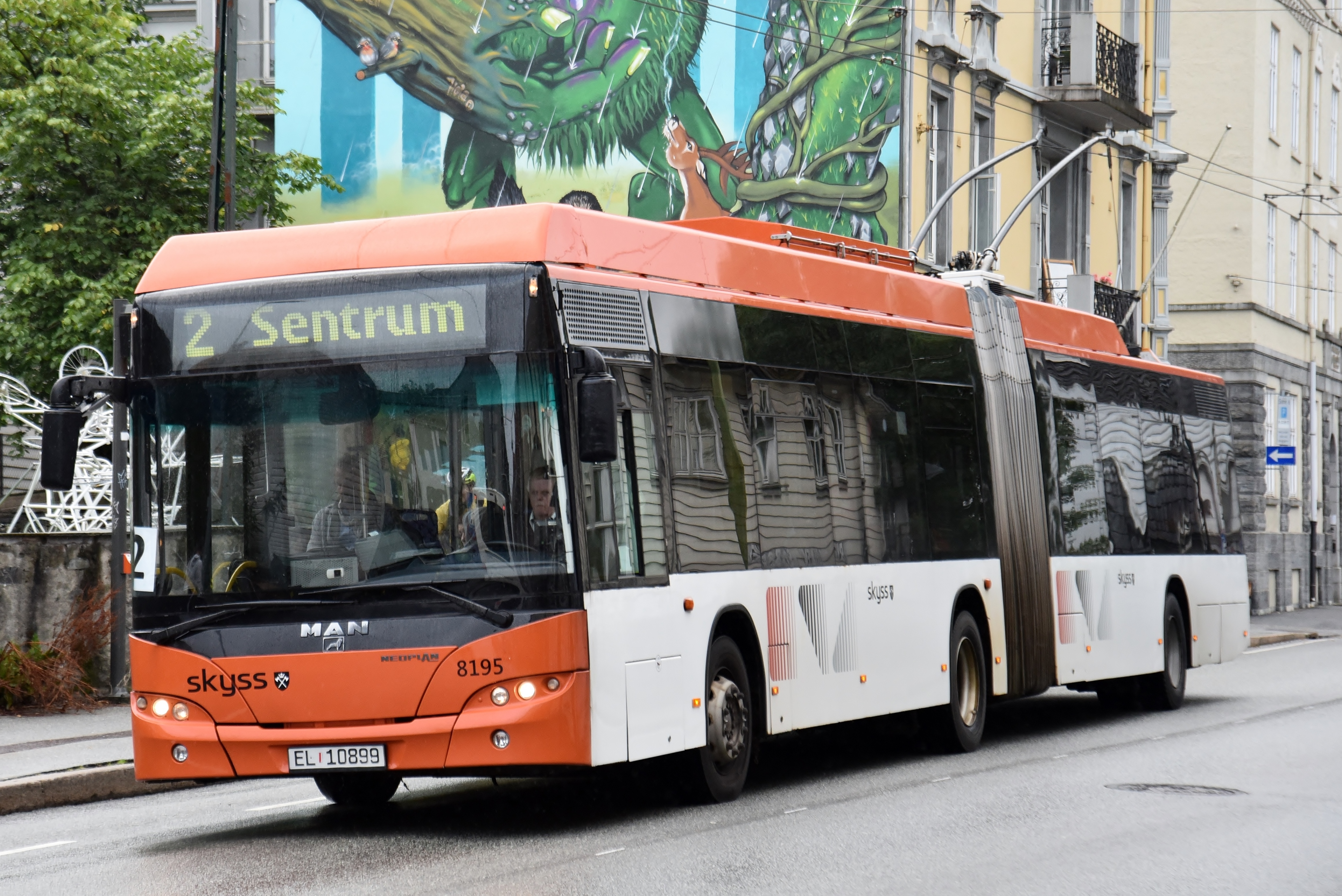 Skyss MAN Neoplan trolleybus no. 8195 in Kong Oscars gate, Bergen, Norway